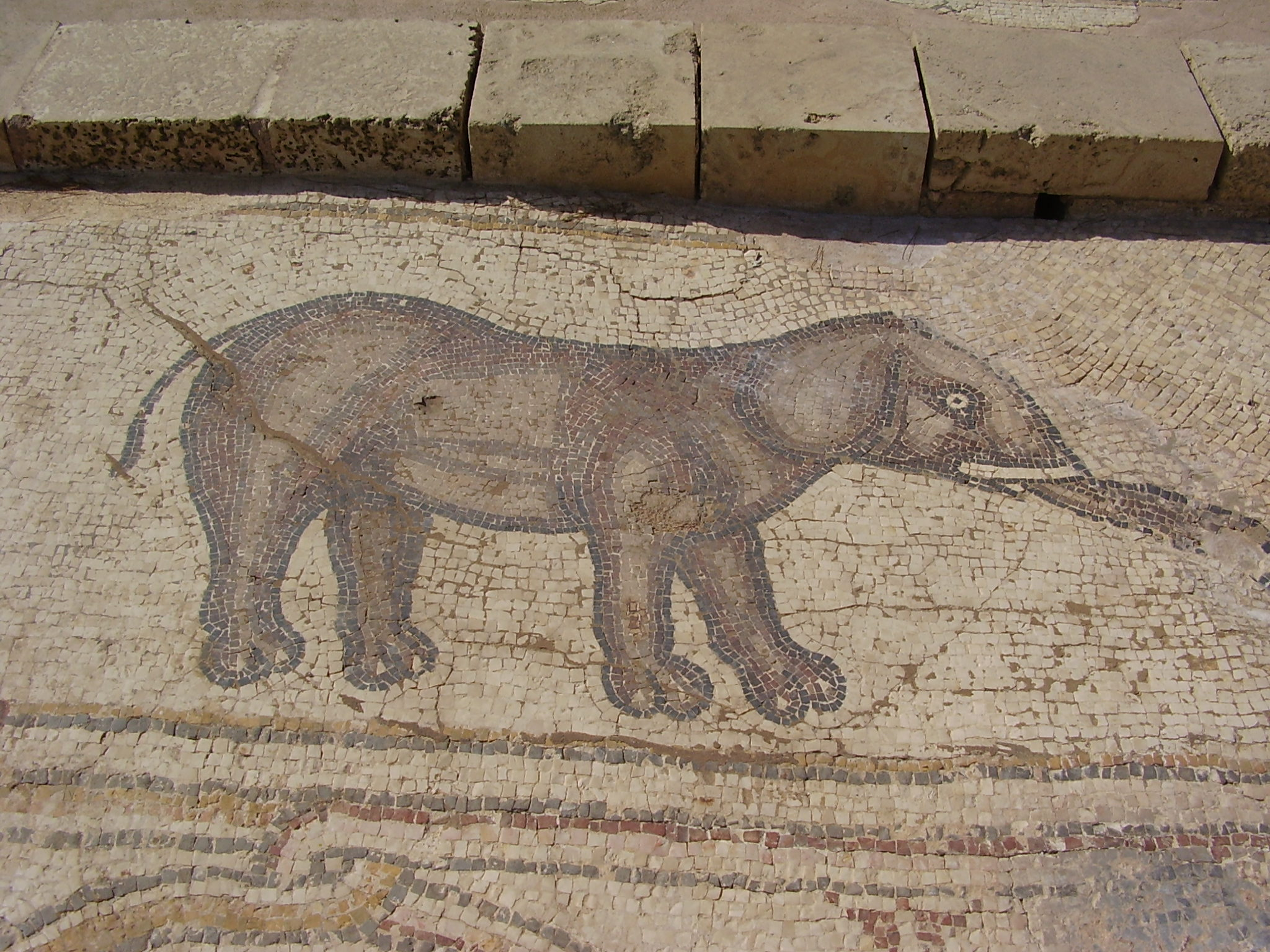 mosaic of an elephant (byzantic period), ceasarea, israel